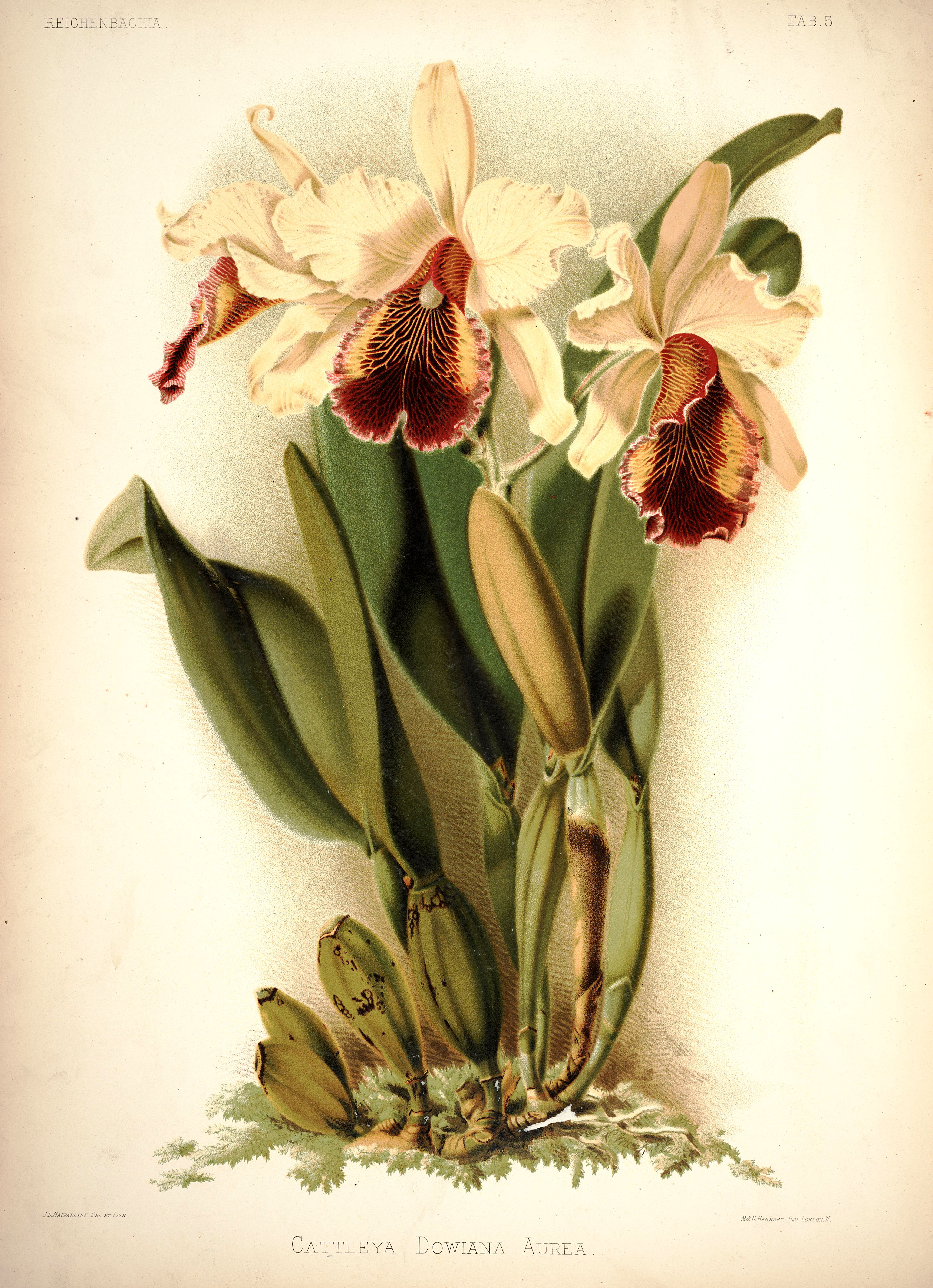 Dow's Cattleya